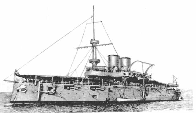 Imperial Russian Battleship Sinop.